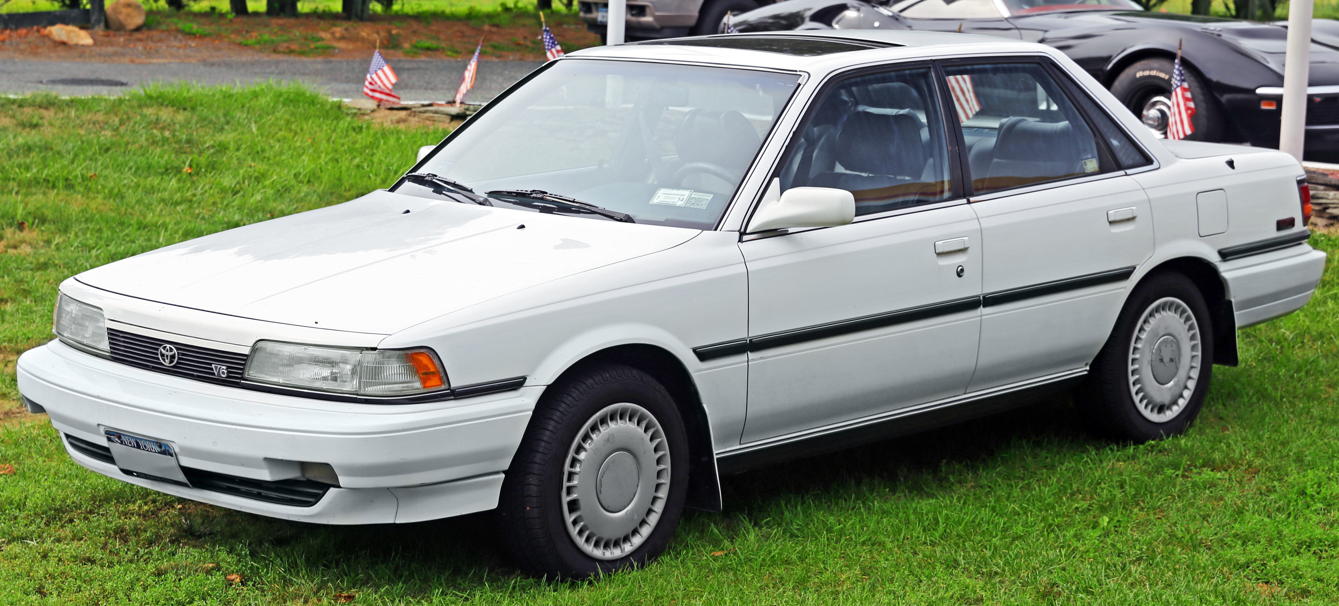 A 1991 Toyota Camry V6 VZV21L-AEPNKA. LE model with a four-speed automatic, 2.5 litre 2VZ-FE V6 engine.